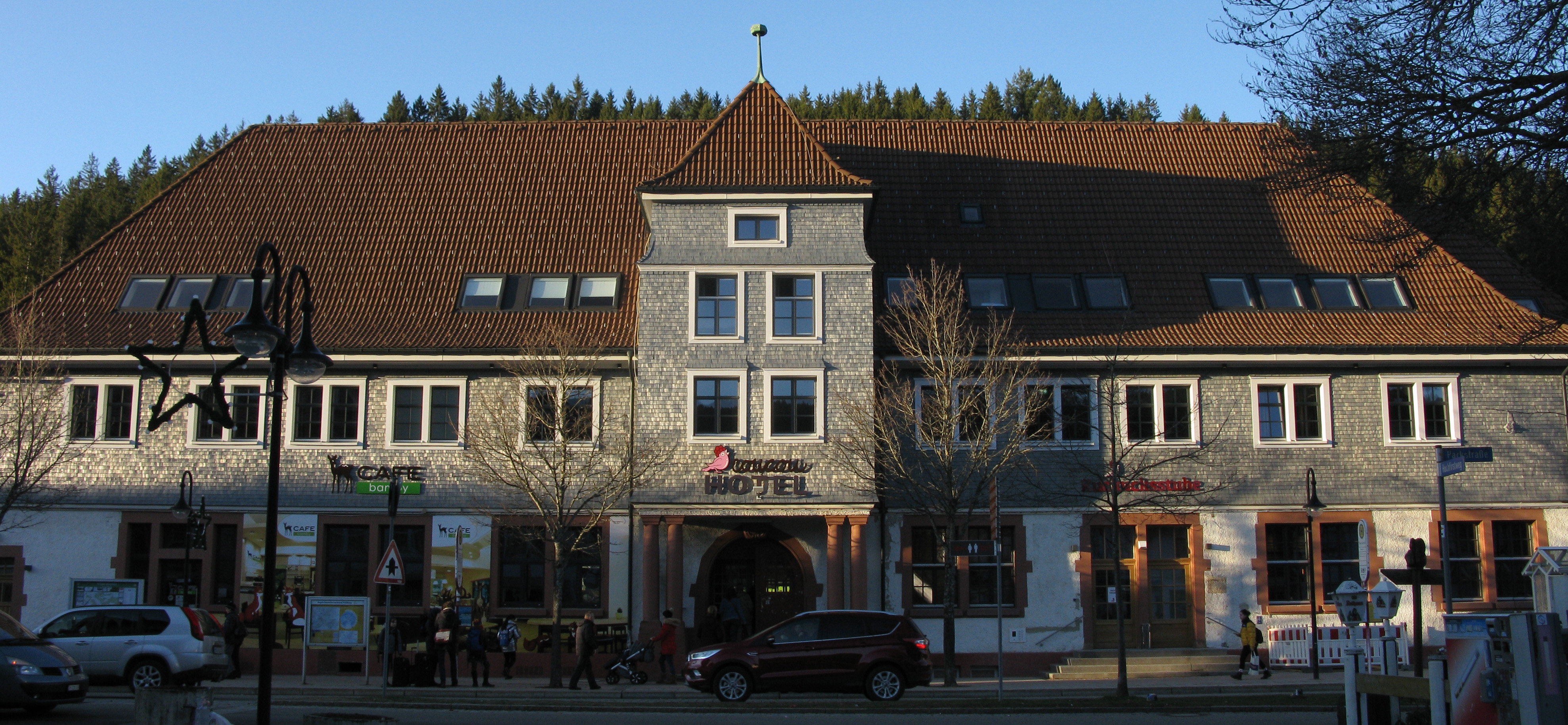 Bahnhof Titisee mit Coucou Hotel